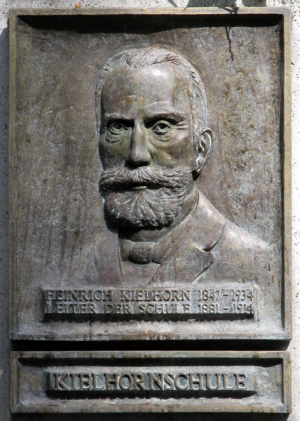 Brunswick, Germany: Heinrich Kielhorn.